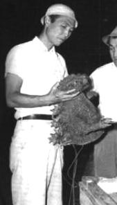 Director Ishiro Honda shooting Godzilla